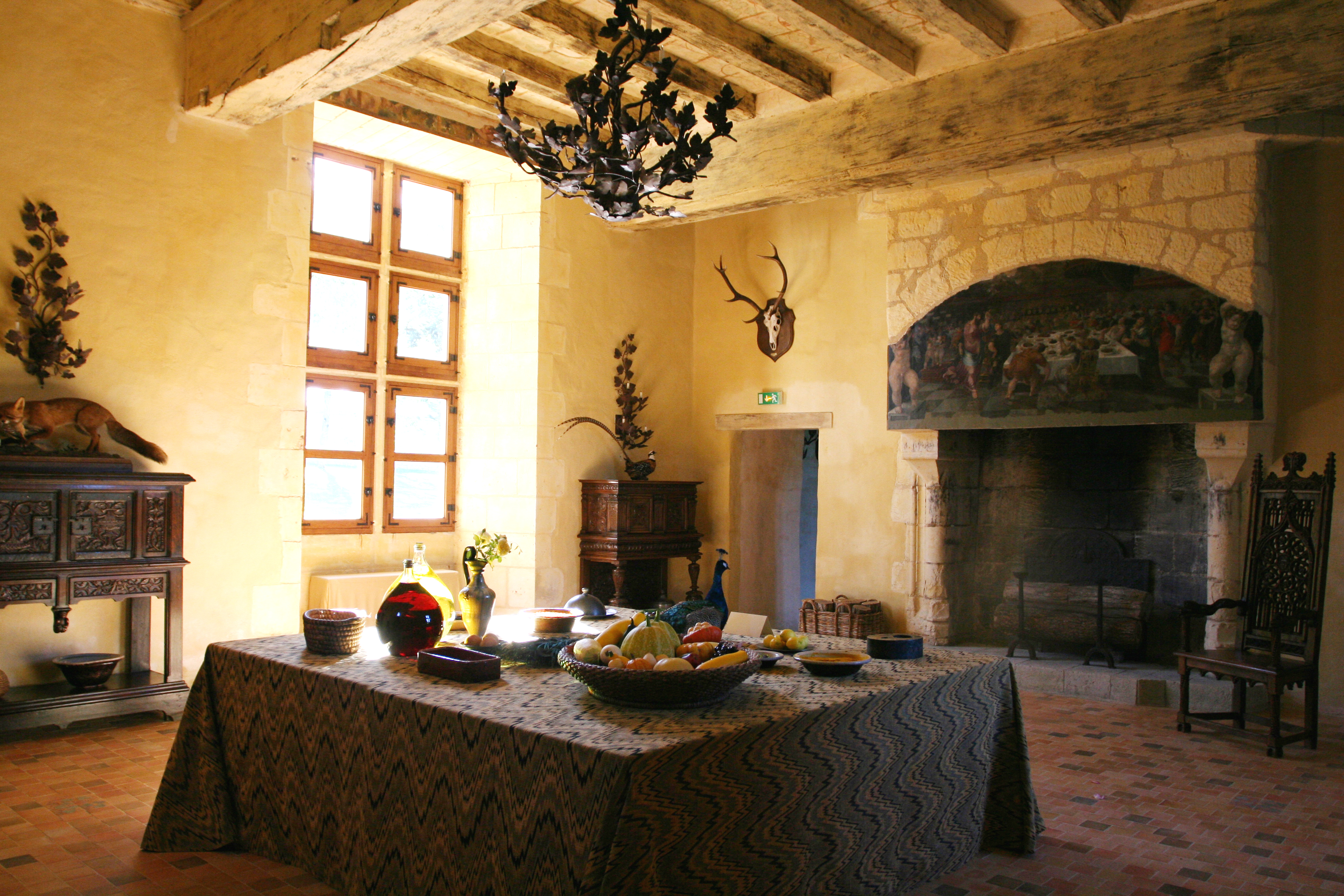 @château du Rivau